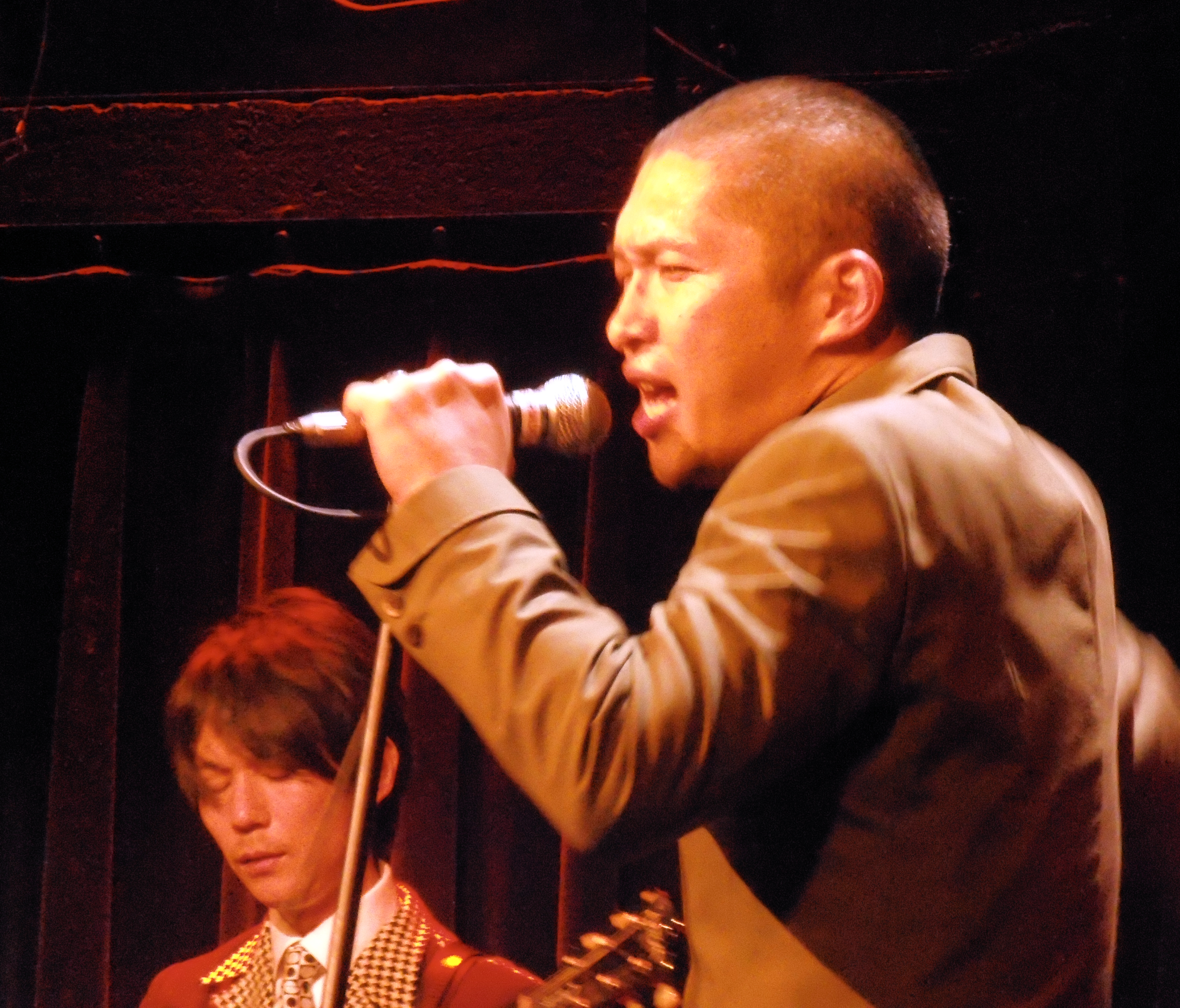 Osaka Monaurail, Innsbruck 2012